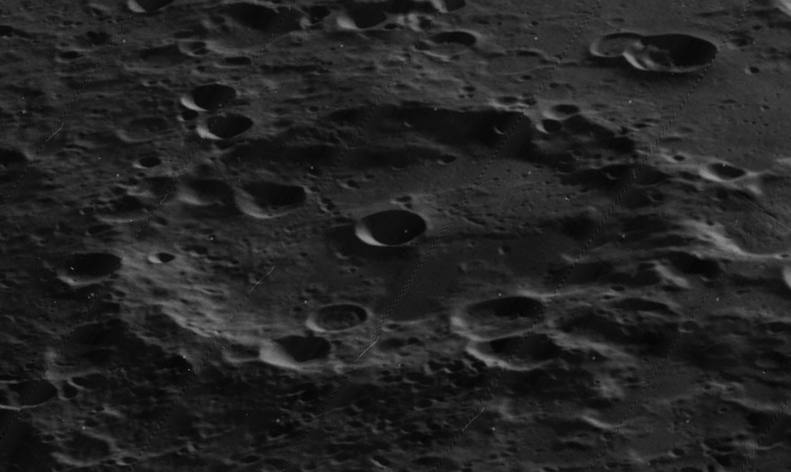 Oblique view of Minkowski, on the moon.